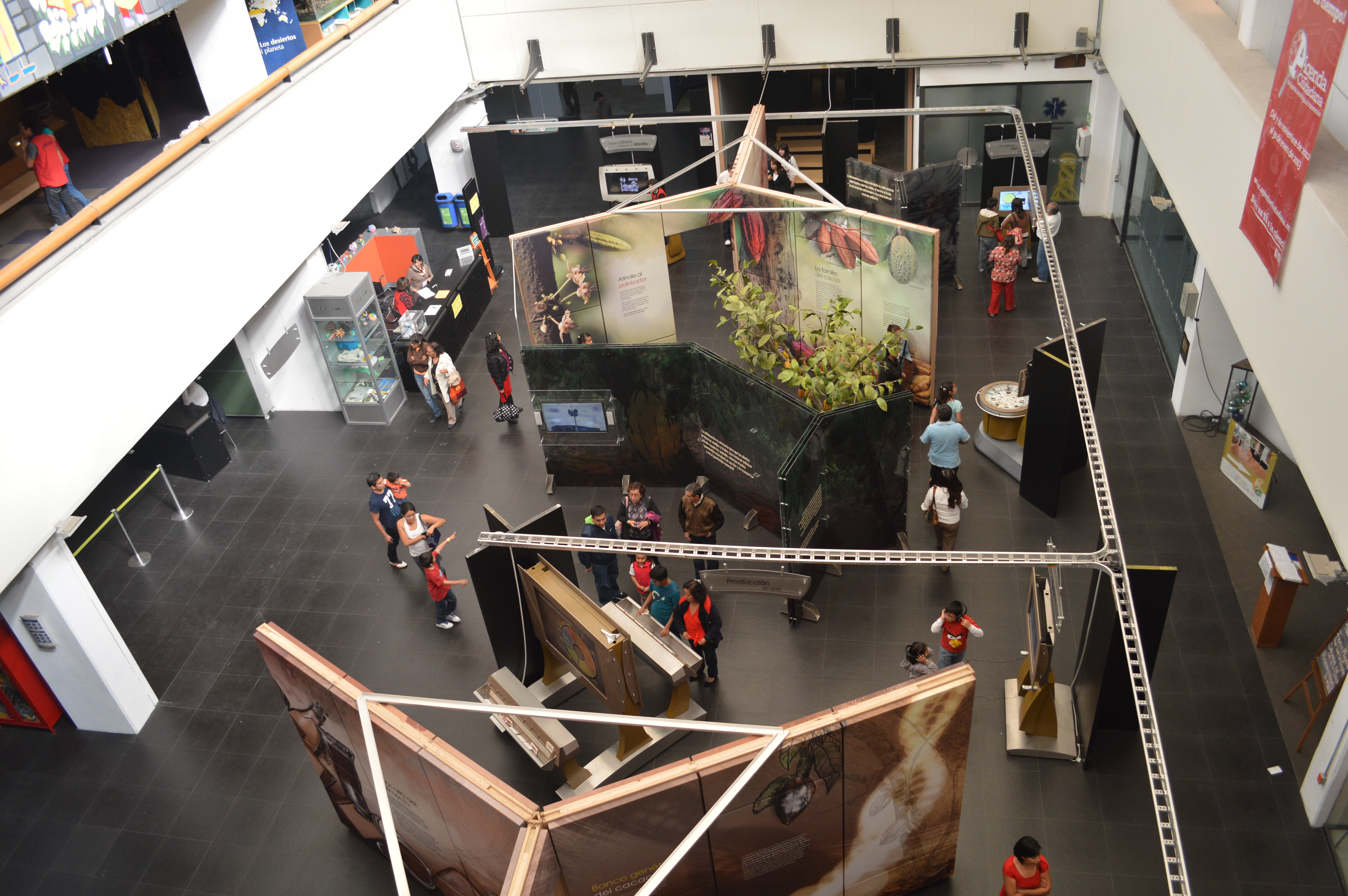 Overview of the cacao exhibit at Universum at Ciudad Universitaria in Mexico City